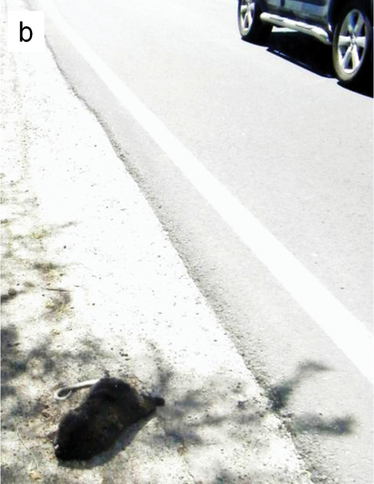 Western ringtail possum (Pesudocheirus occidentalis) roadkill in Busselton, Western Australia.